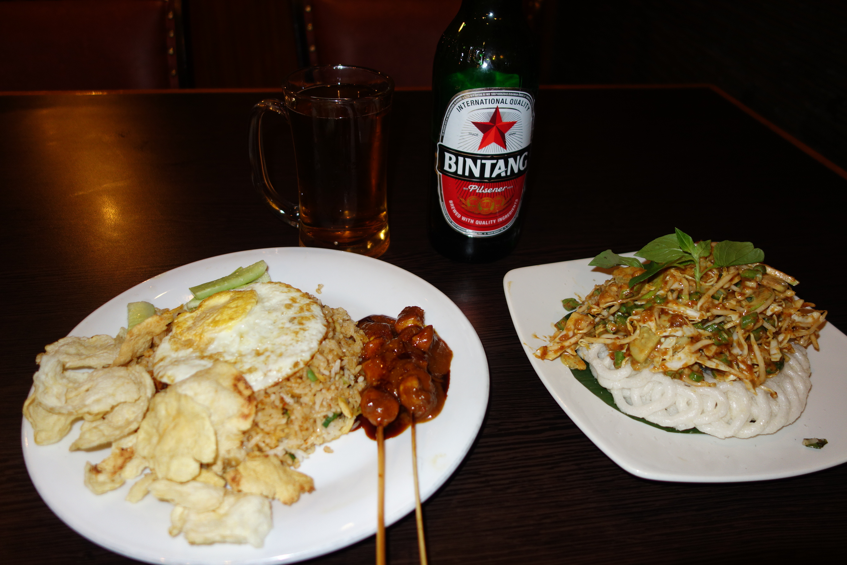 Nasi goreng (fried rice) and karedok vegetable salad in a restaurant in Jakarta